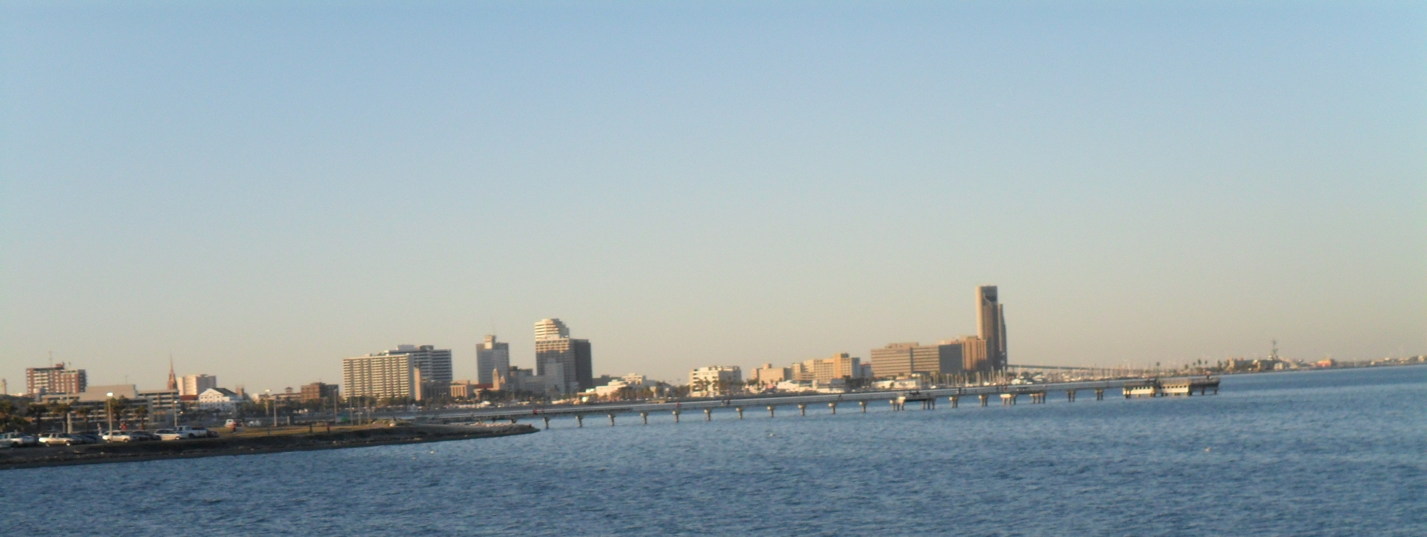 Corpus Christi TX skyline